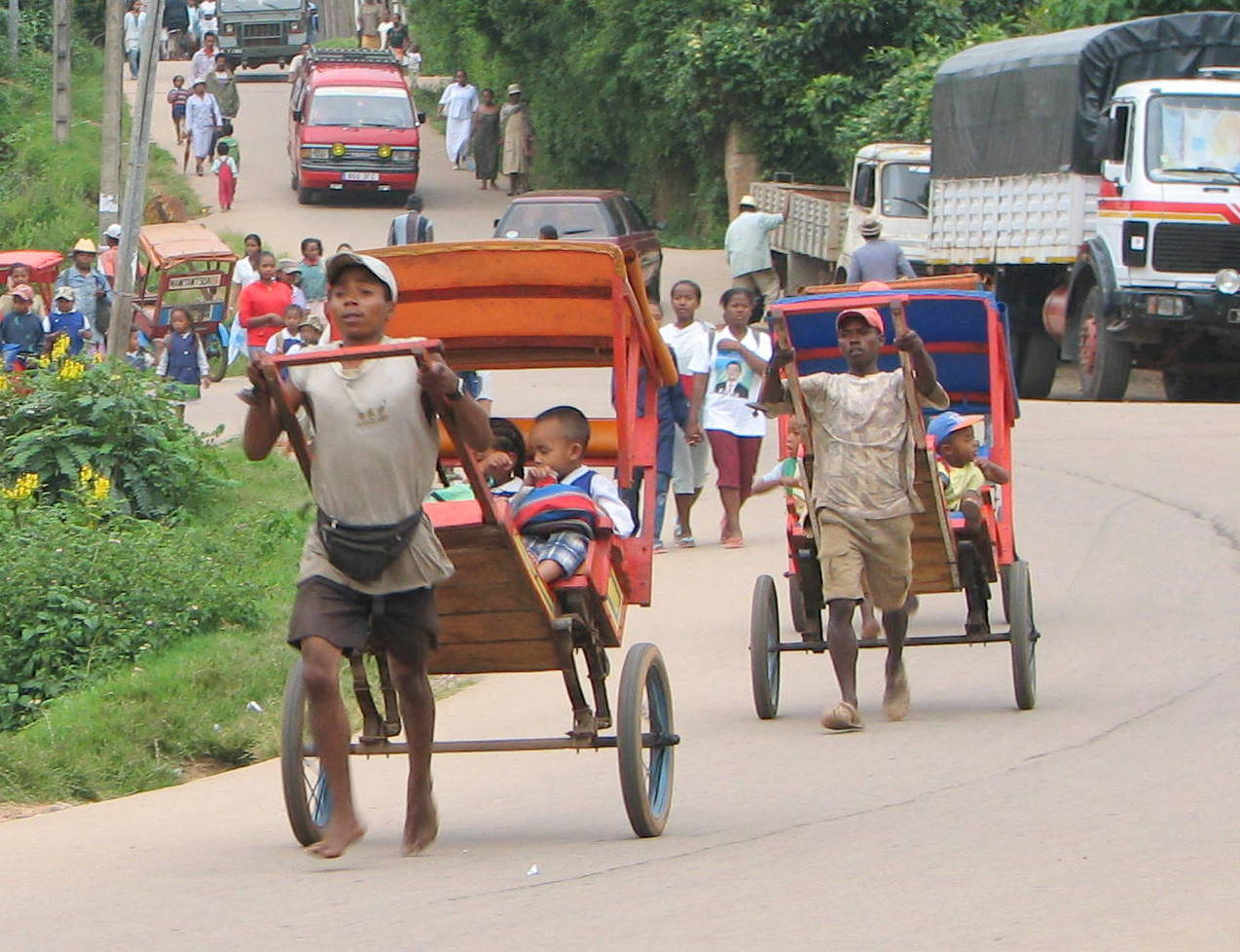 Rickshaws, Ambositra, Madagascar